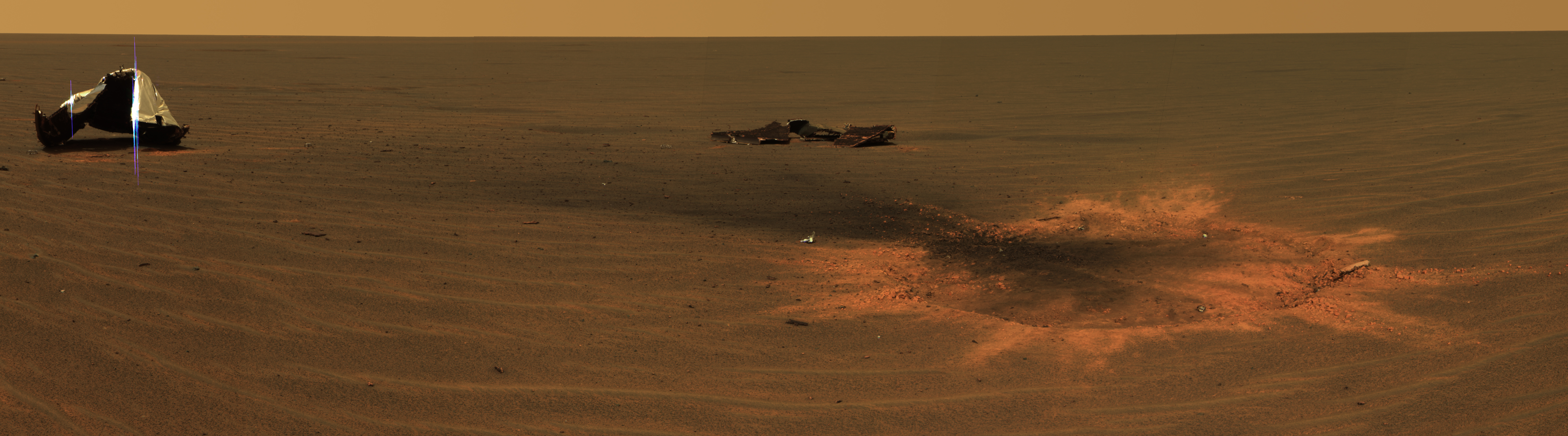 This stunning image features the heat shield impact site of NASA's Mars Exploration Rover Opportunity. This is an approximately true-color mosaic of panoramic camera images taken through the camera's 750-, 530-, and 430-nanometer filters. The mosaic was acquired on Opportunity's sol 330 (Dec. 28, 2004), shortly after Opportunity arrived to investigate the site where its heat shield hit the ground south of "Endurance Crater" on Jan. 24, 2004. On the left, the main heat shield piece is inverted and reveals its metallic insulation layer, glinting in the sunlight. The main piece stands about 1 meter tall (about 3.3 feet) and about 13 meters (about 43 feet) from the rover. The other large, flat piece of debris near the center of the image is about 14 meters (about 46 feet) away. The circular feature on the right side of the image is the crater made by the heat shield's impact. It is about 2.8 meters (9.2 feet) in diameter but only about 5 to 10 centimeters (about 2 to 4 inches) deep. The crater is about 6 meters (about 20 feet) from Opportunity in this view. Smaller fragments and debris can be seen all around the impact site. The impact excavated a large amount of reddish subsurface material. Darker materials cover part of the crater's flat floor and have formed a streak or jet of material pointing toward the two largest heat shield fragments.